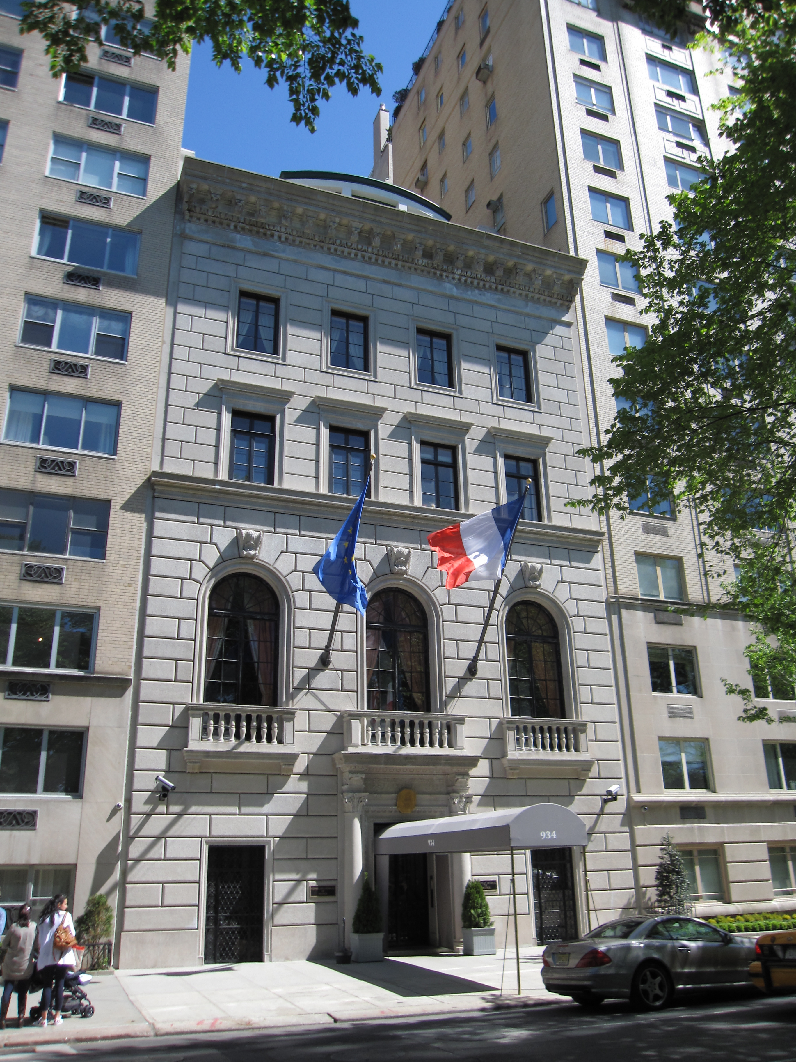 Charles E. Mitchell House, today French Consulate General, New York.